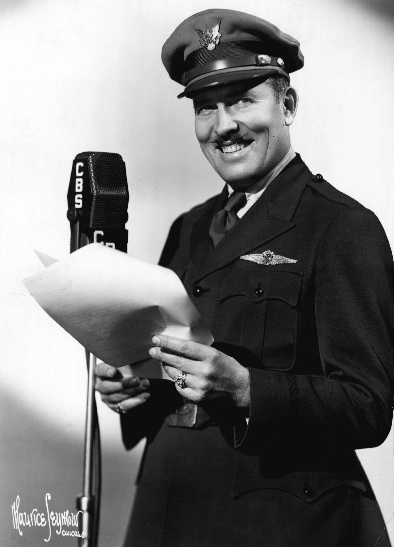 Photo of Colonel Roscoe Turner from the radio program Sky Blazers. Turner was the star of this radio show.